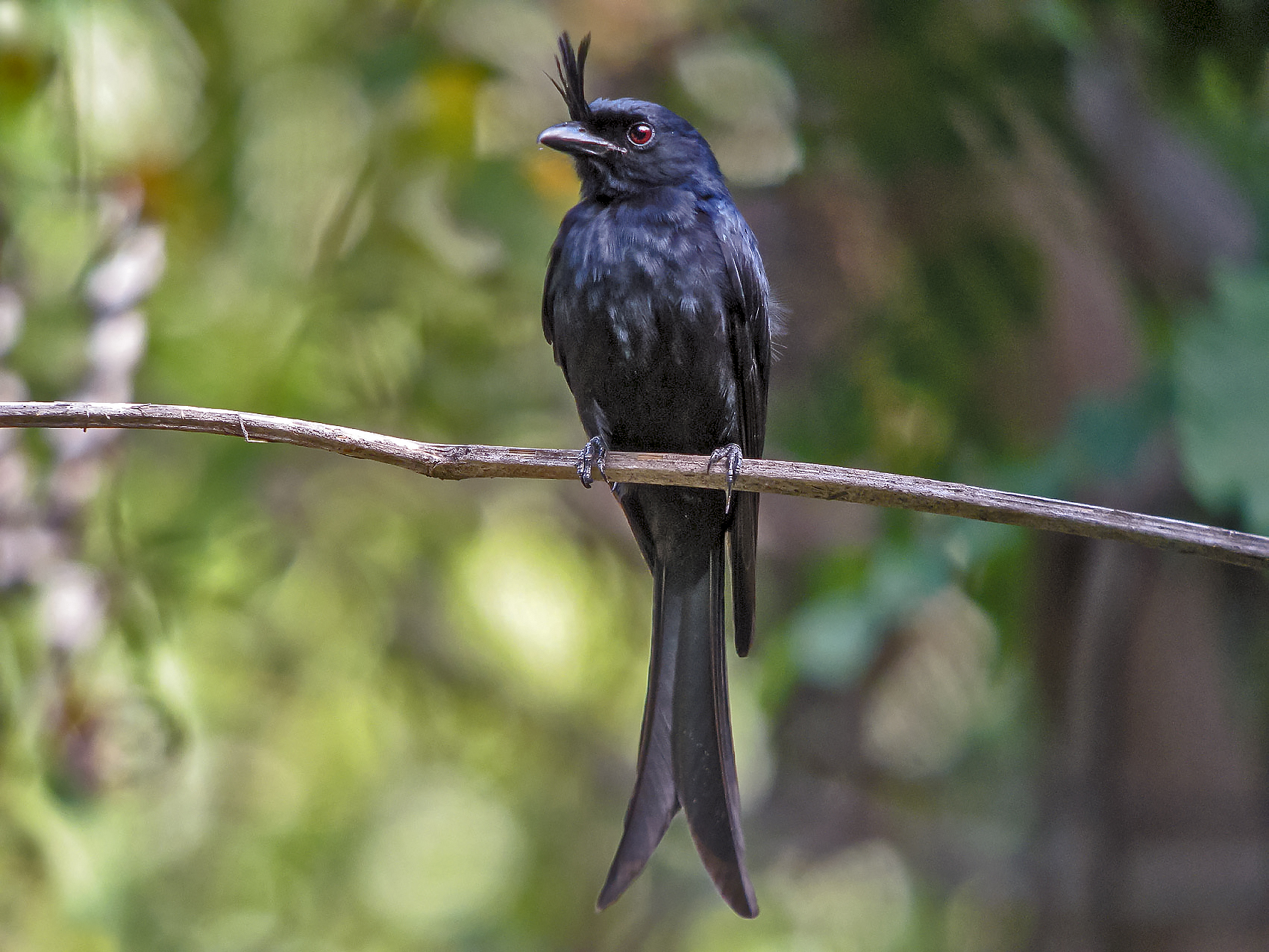 Crested Drongo, Ankarafantsika National Park, Madagascar Swarowski 80 HD 30 X, Coolpix P5100 (Adapter DCB)